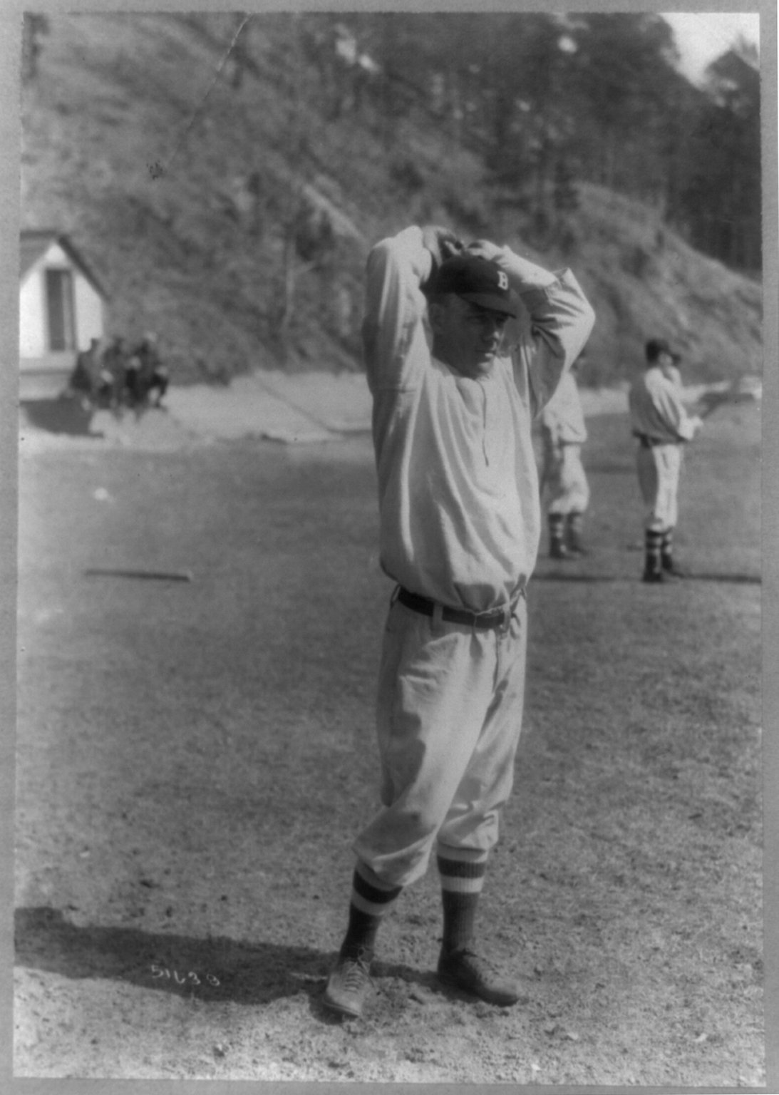 Frank Leon Allen, baseball player, full-length portrait, standing, facing right, with hands above head, in uniform of the Brooklyn Feds